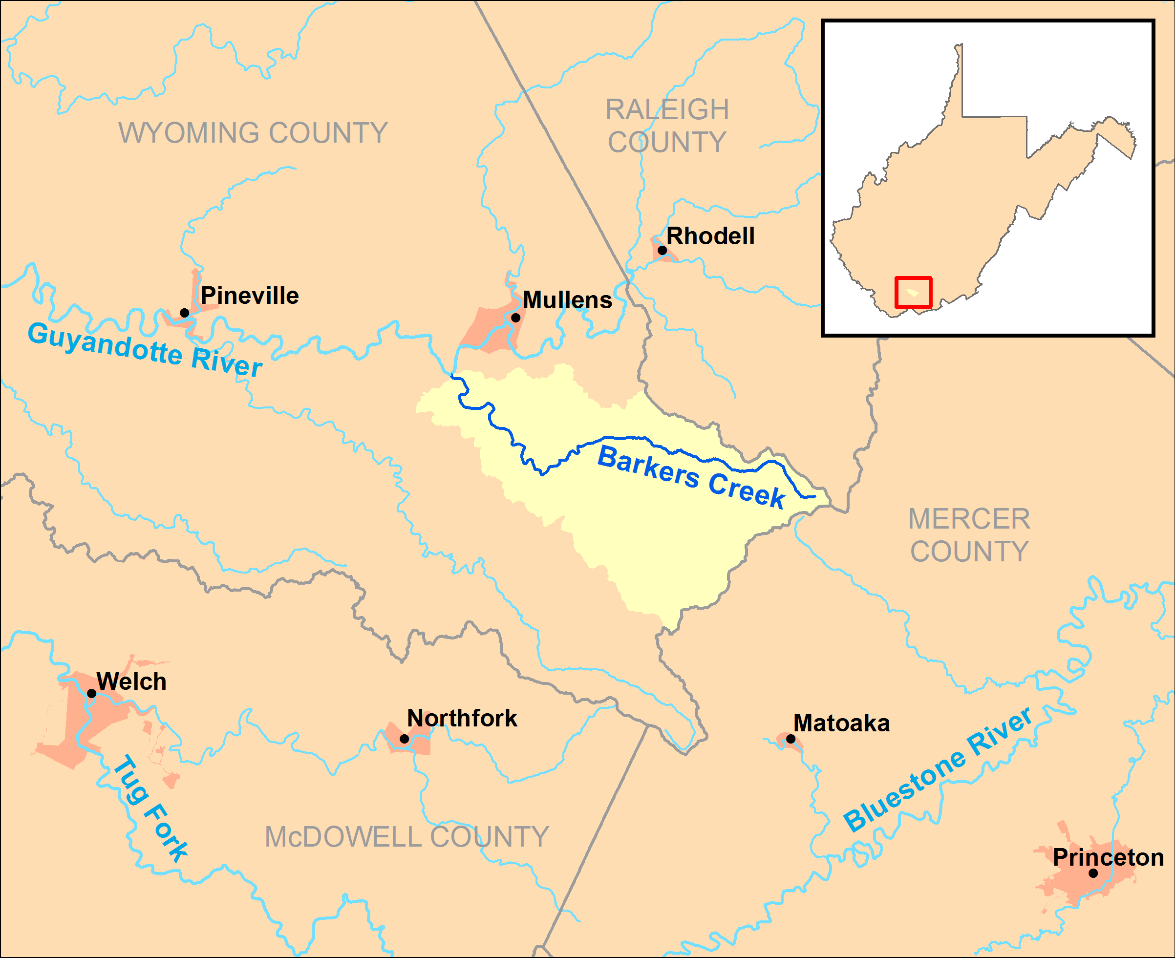 A map of Barkers Creek and its watershed (USGS HUC-12 050701010301) in Wyoming County, West Virginia.